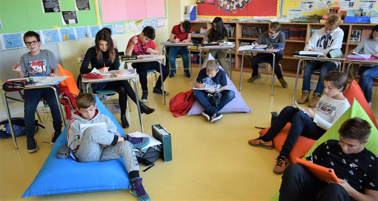 NOVA International Schools Middle School